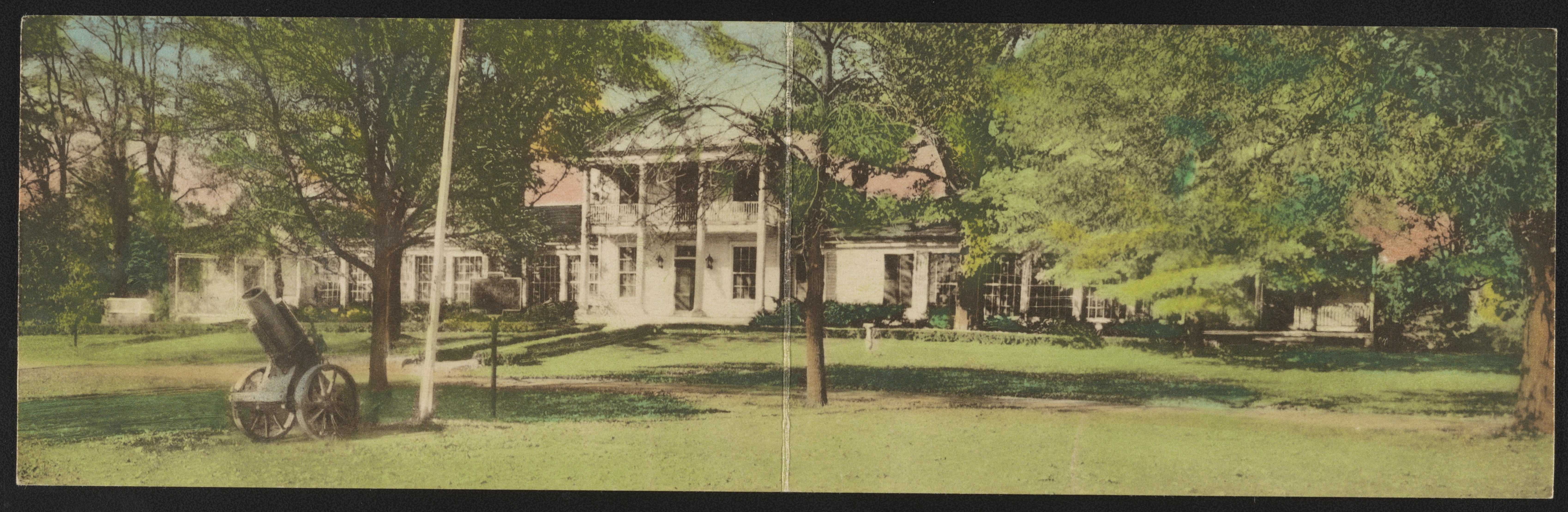 Title: The Pavilion Abstract/medium: 1 photomechanical print (postcard) : hand colored.